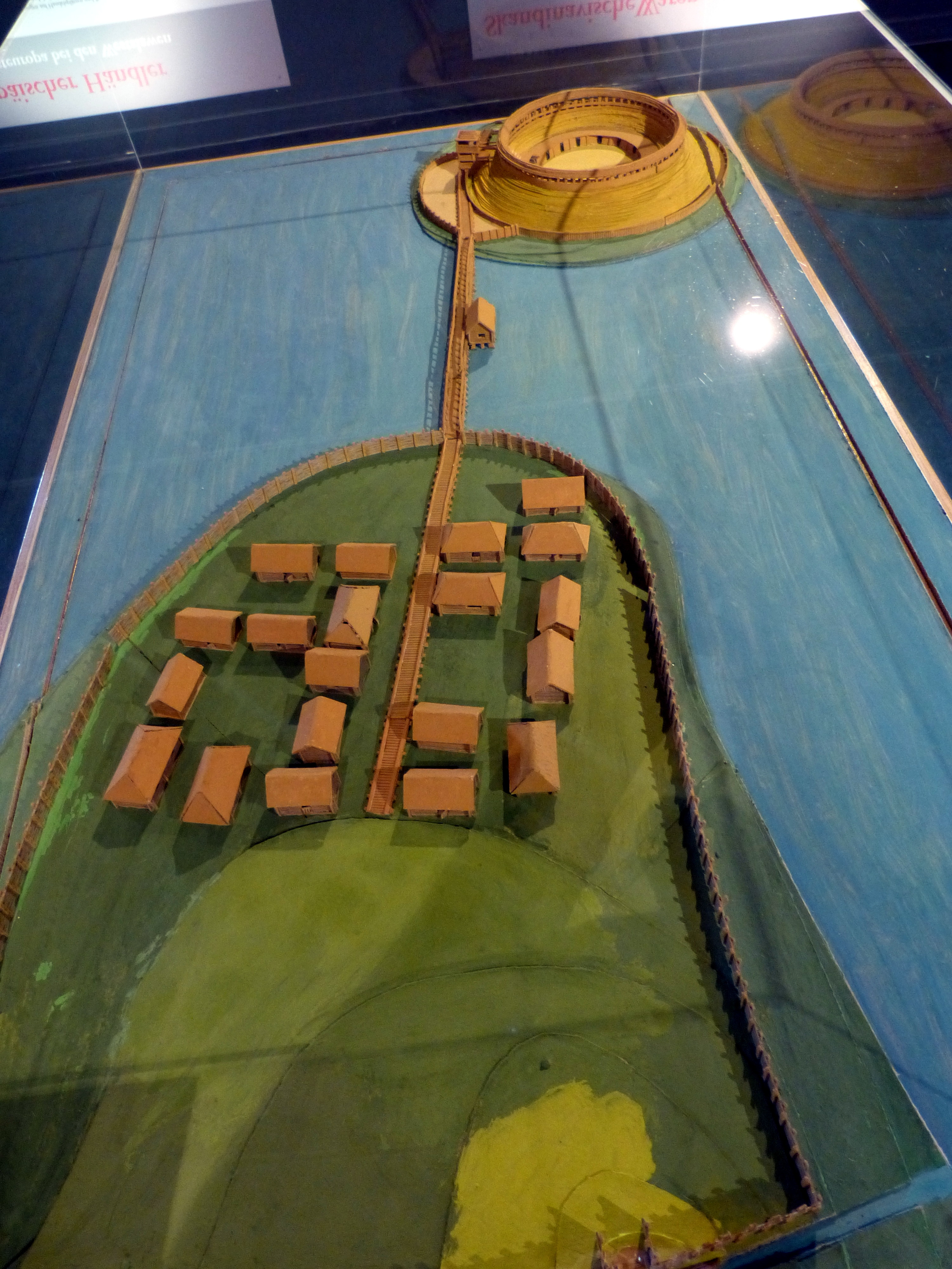 Groß Raden ( Mecklenburg ). Archaeological museum: Modell of the Slavic gord in Groß Raden.